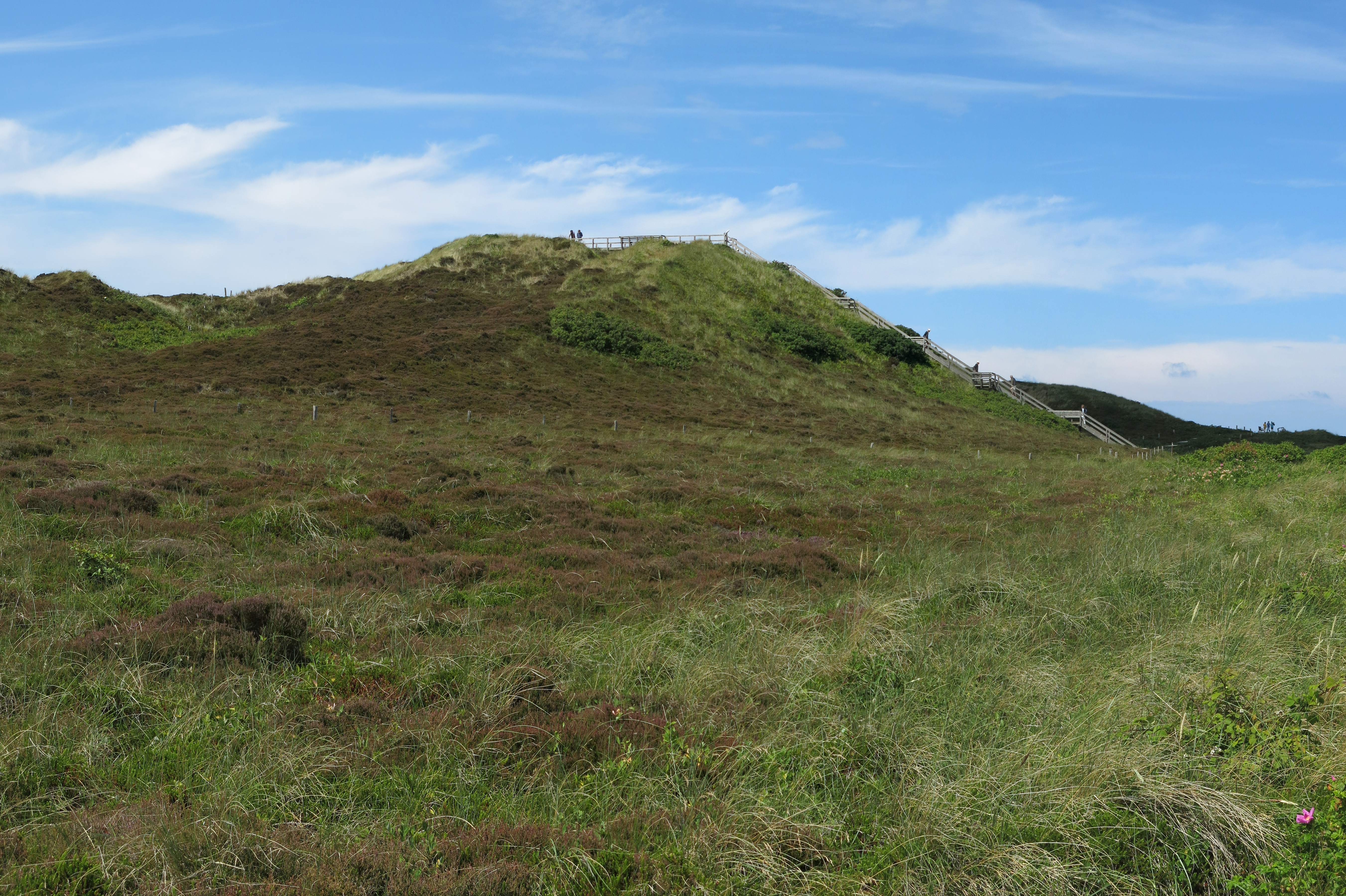 The Uwe-Dune, highest elevation of the island of Sylt, seen from east.